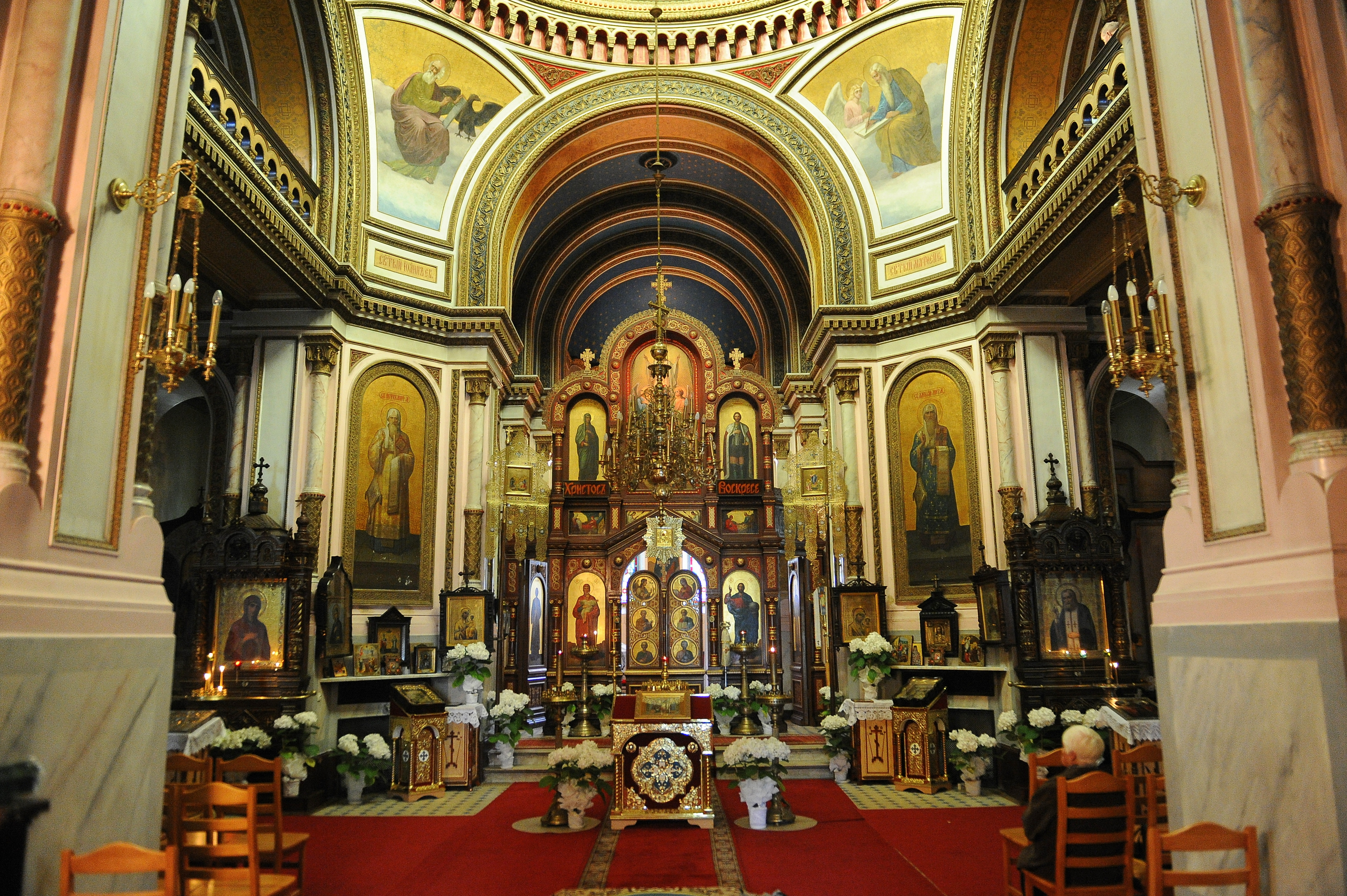 Alexander Nevsky Cathedral, Łódź